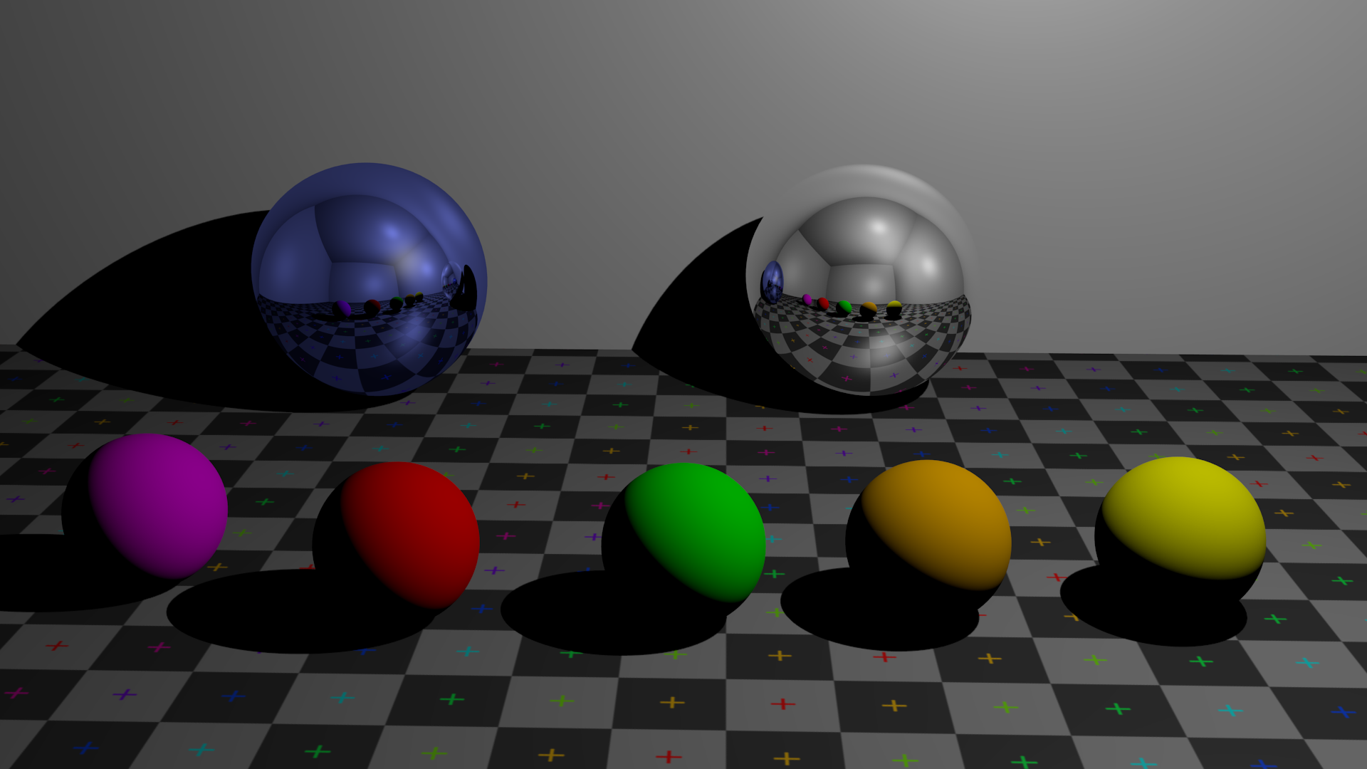 An unrealistic image to demonstrate the concept of reflection in raytracing/computer generated imagery. Made with blender. "Inspired by" the very artifacted Metallic balls.jpg